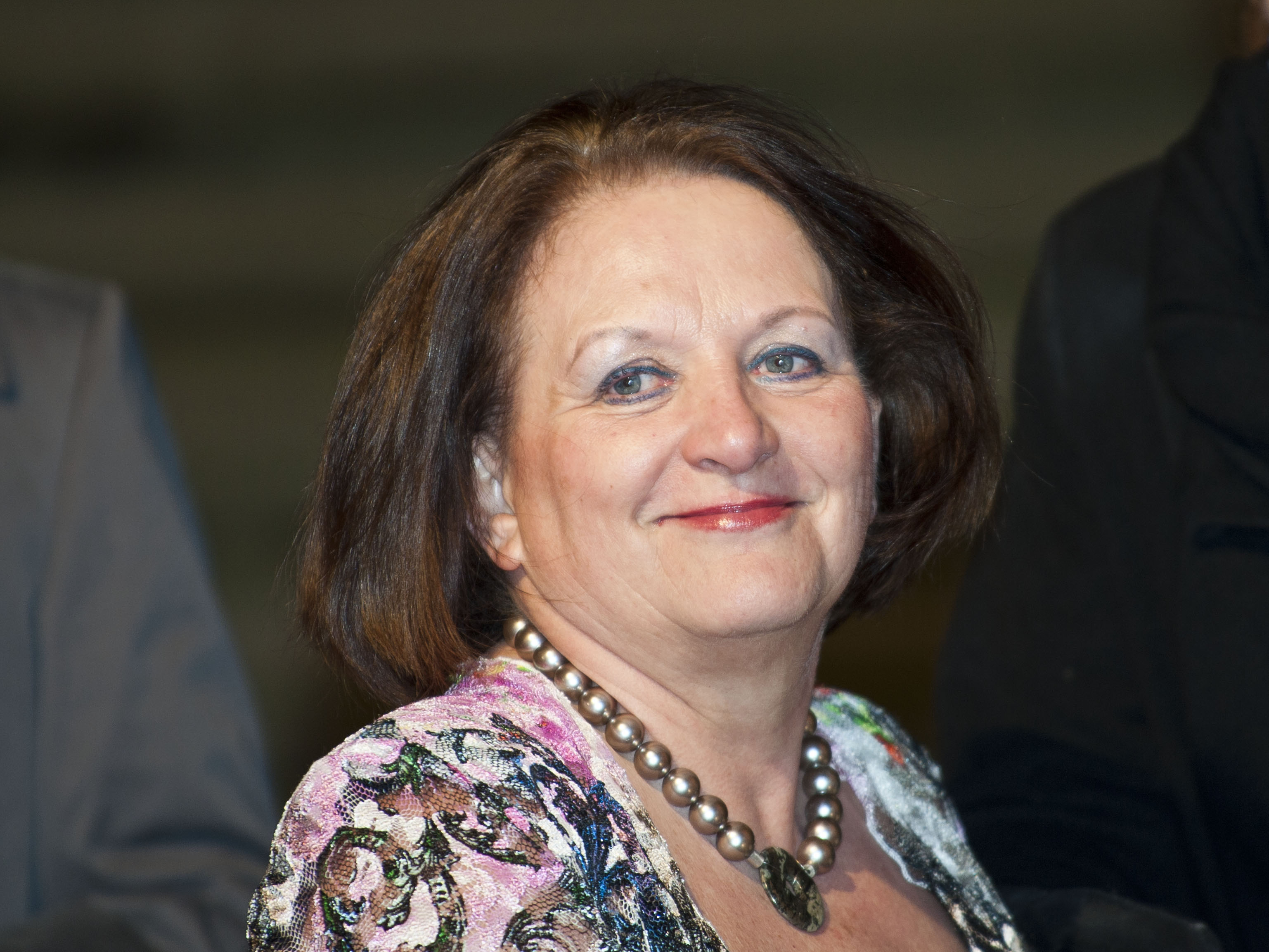 Sabine Leutheusser-Schnarrenberger, German Minister of Justice, at the Cinema for Peace gala.